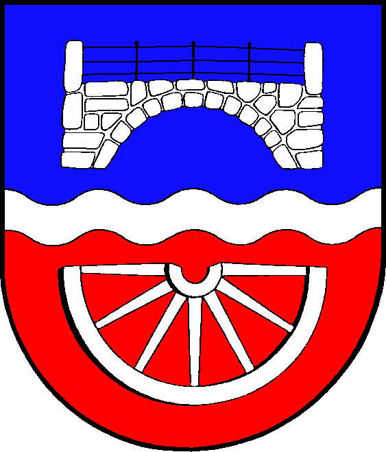 Coat of arms of the municipality Brügge in Schleswig-Holstein, Germany.